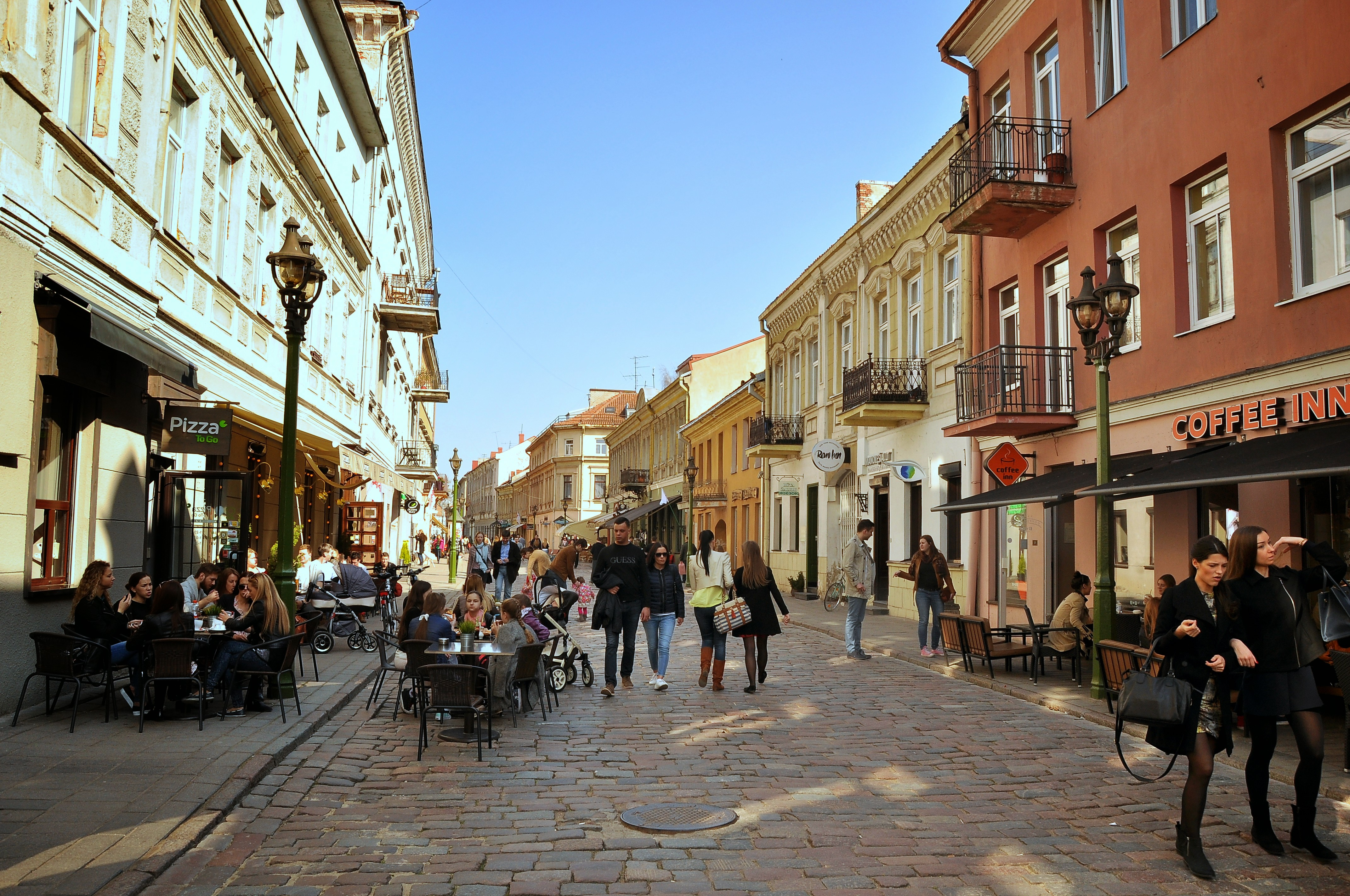 Kaunas - Old Town